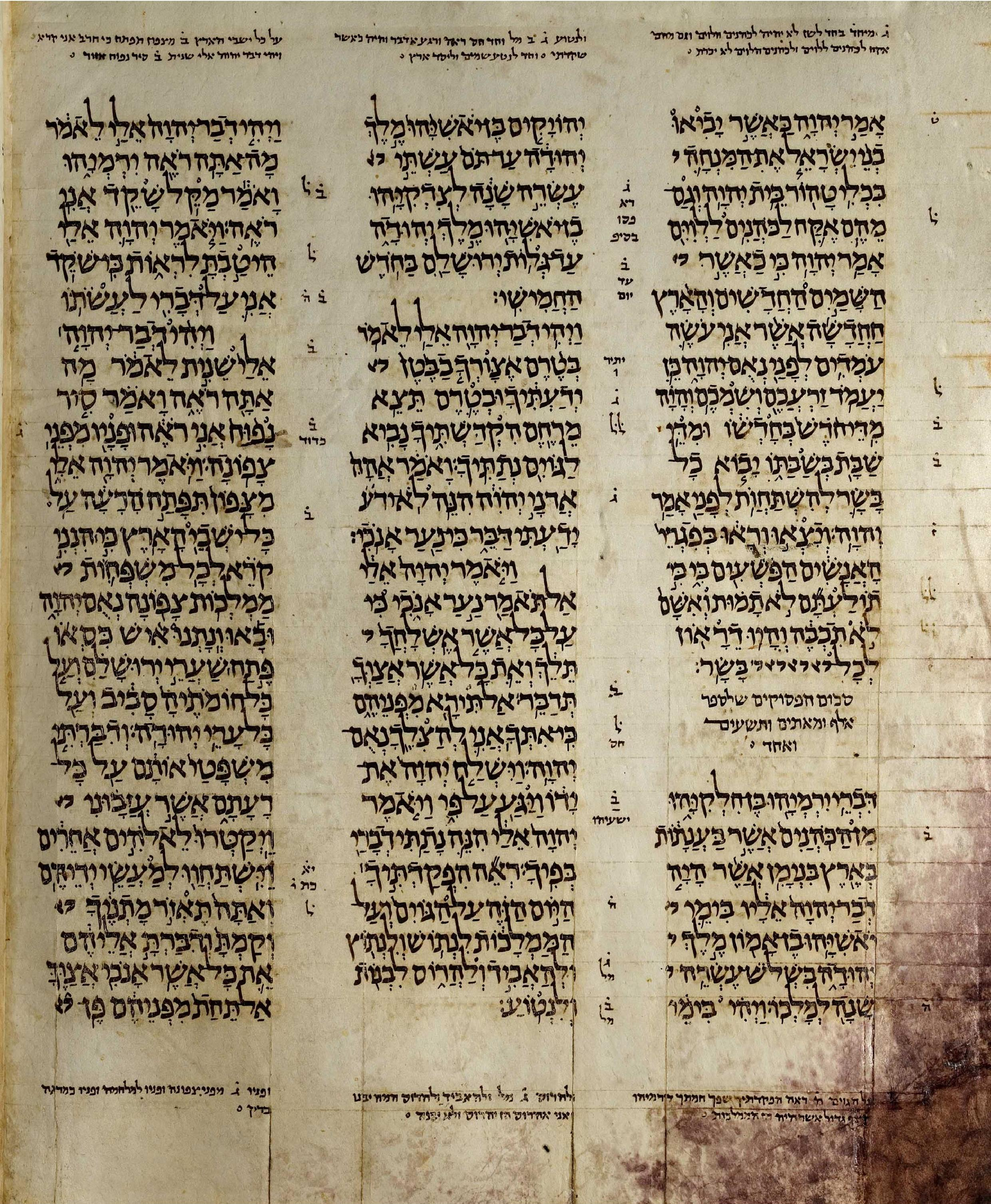 A high resolution scan of the Aleppo Codex. This file contains the Book of Jeremiah (the sixth book in Nevi'im). Unfortunately the high-resolution file only contains about a dozen pages from the initial part of Jeremiah.